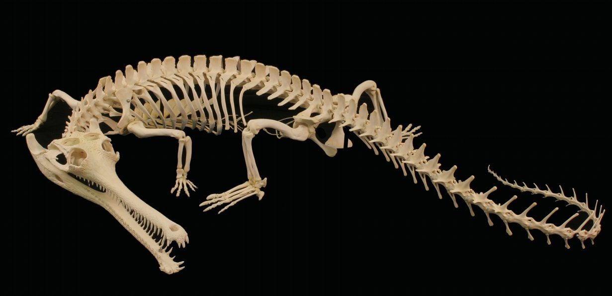 Gavial Skeleton, prepared and articulated by Skulls Unlimited International.